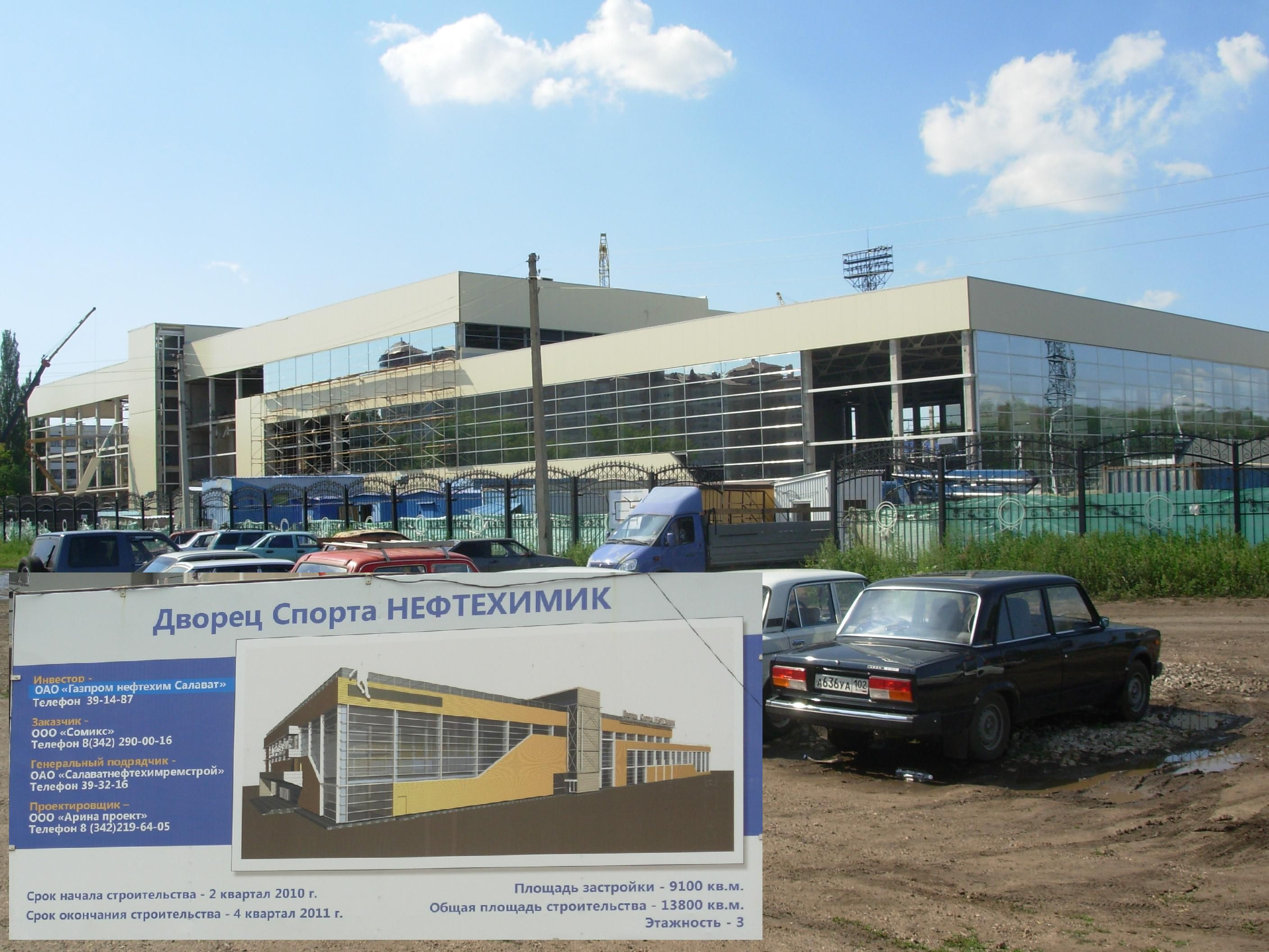 town